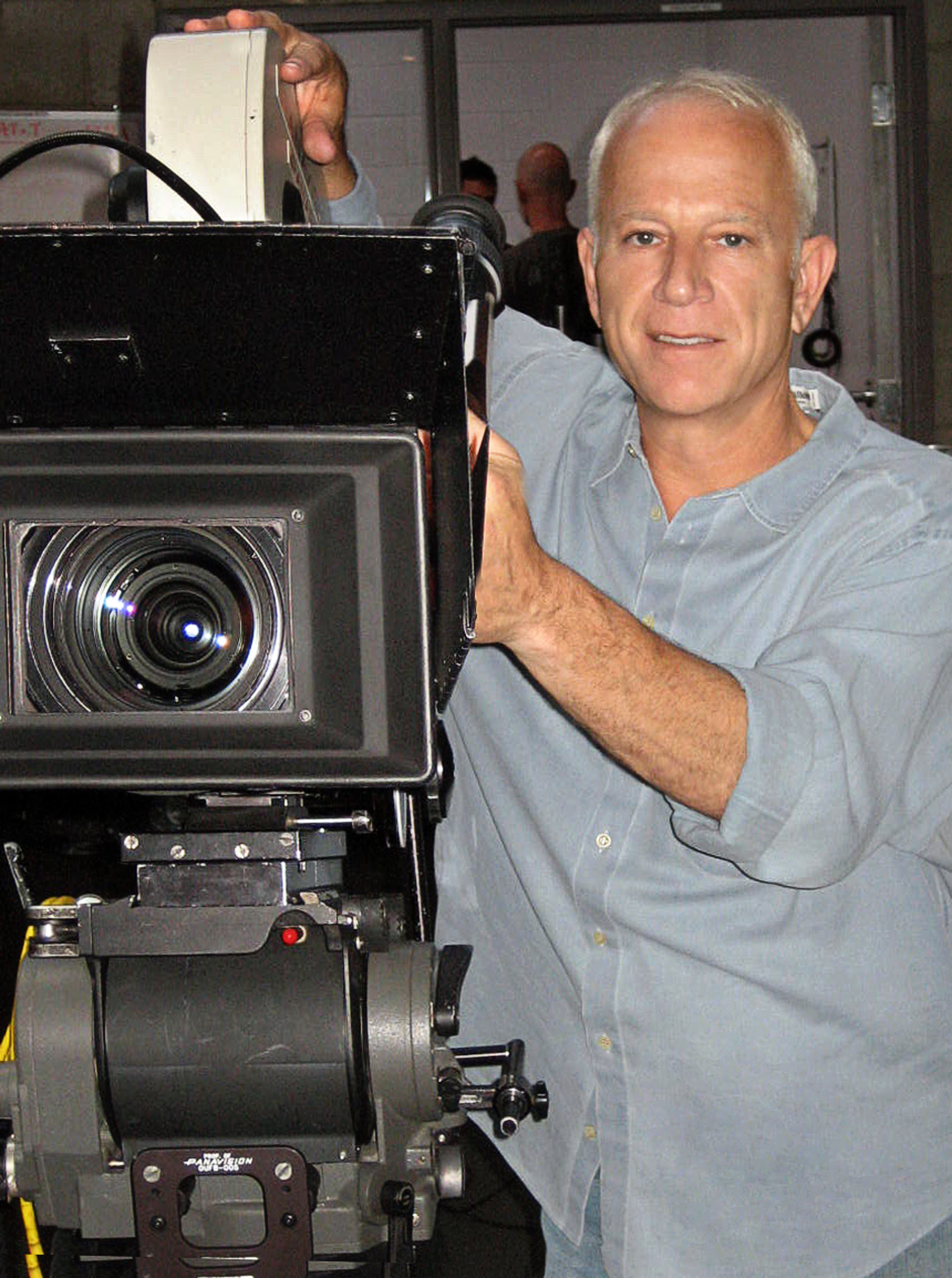 Photo of Gary W. Goldstein, 2008